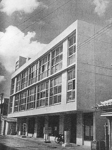 Okinawa Teachers Association Building circa 1955